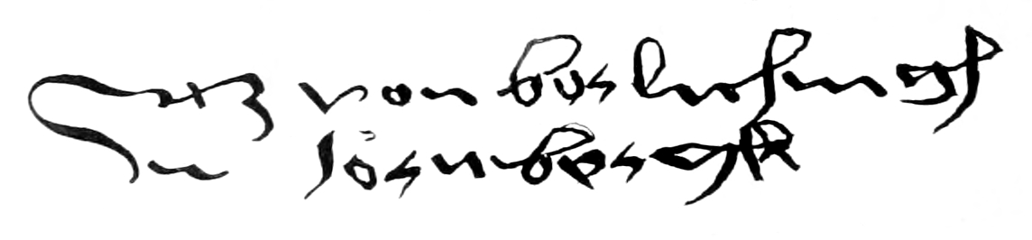 Signature of Götz von Berlichingen